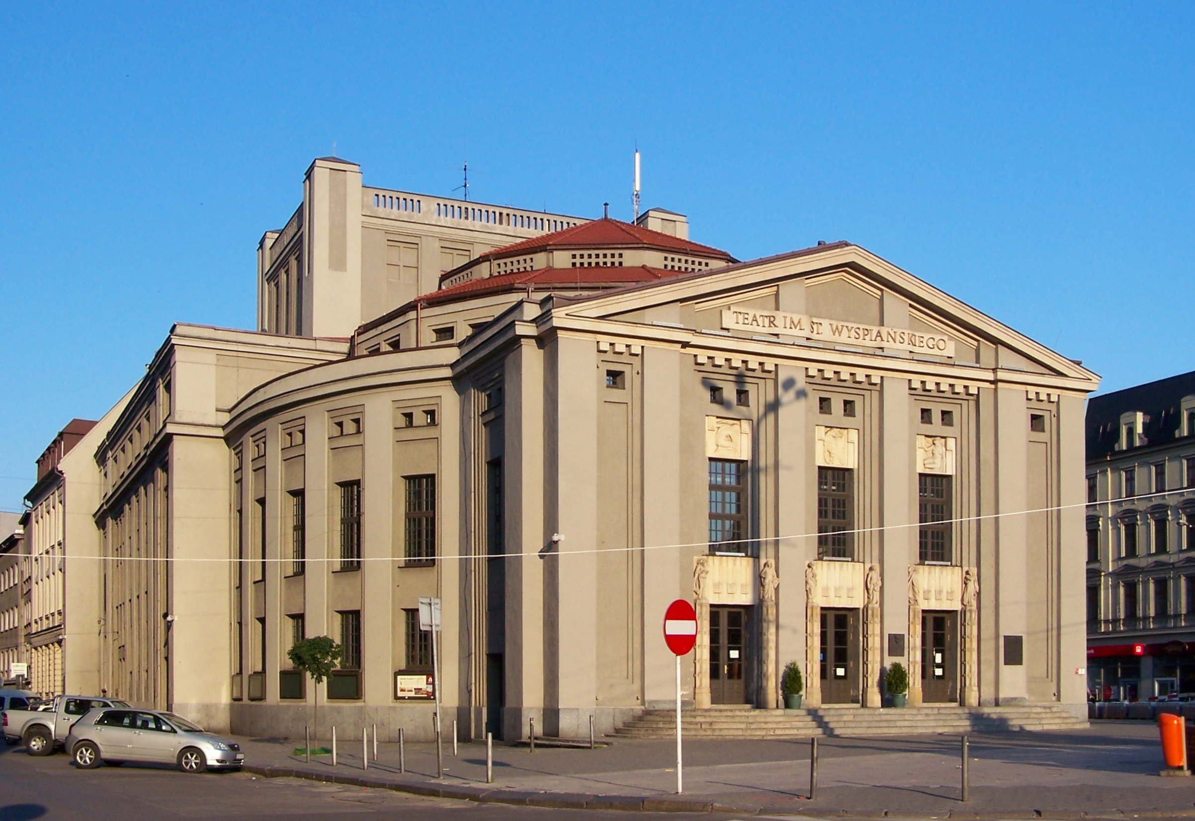 The Silesian Theater (Teatr Śląski im. Stanisława Wyspiańskiego) in Katowice (Carl Moritz 1905-1907).